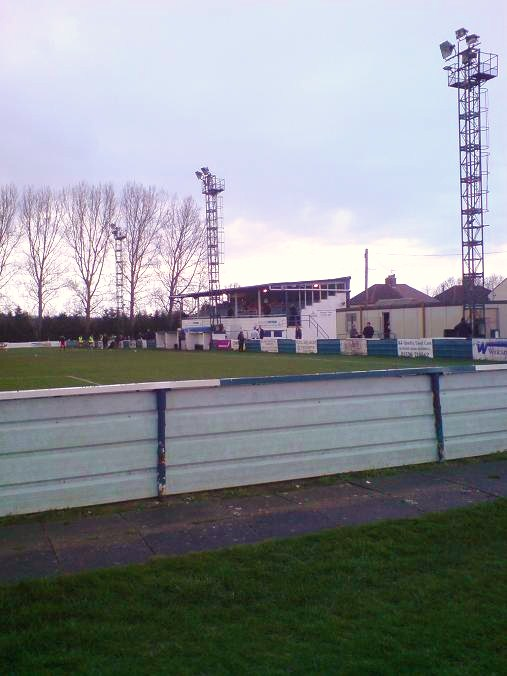 A photo of the main stand at Rothwell Town FC, Rothwell taken on 08/04/2008 by cls14